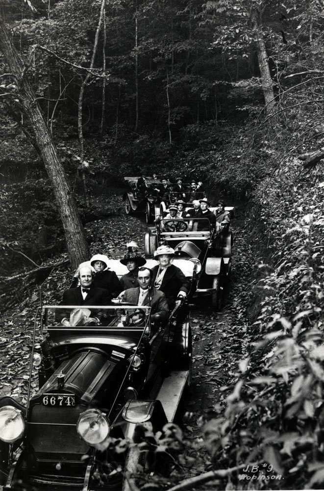 View of parade of motorcars carrying politician William Jennings Bryan and his wife on a visit to the Grove Park Inn, Asheville, N. C., in 1913 to visit Fred Loring Seely and his wife Evelyn Grove Seely. Fred Seely, son-in-law of Edwin Wiley Grove, builder of Grove Park Inn, is pictured driving the 1913 Packard at the head of the motorcade. Seated in the middle of the rear of the Packard is Seely's wife. William Jennings Bryan and his wife (seated in the Packard's passenger seats) visited North Carolina in the early fall of 1913. Image courtesy of the University of North Carolina-Asheville.